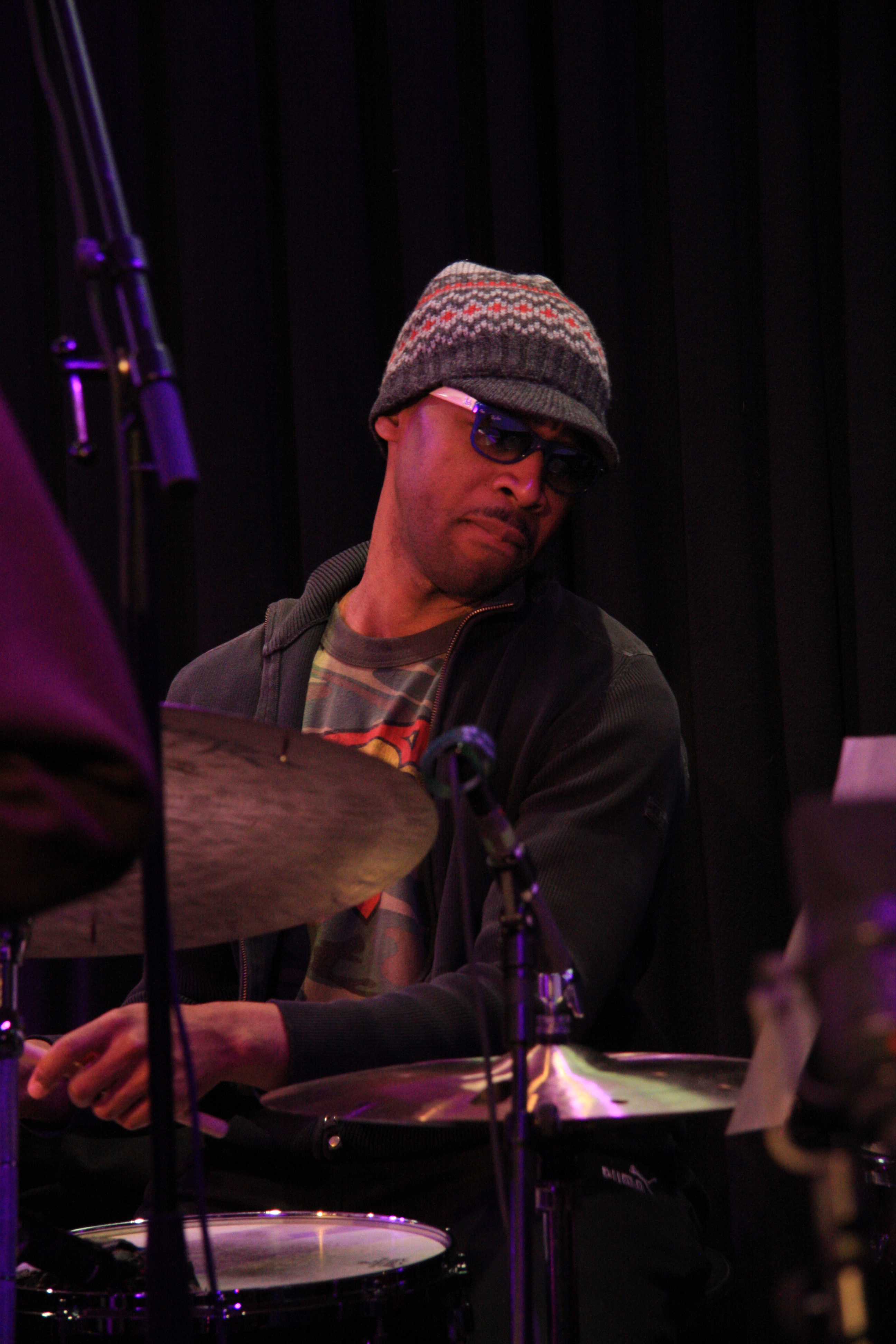 Eric Harland performing at a workshop in Munich (Germany) with the band San Francisco Jazz Collective